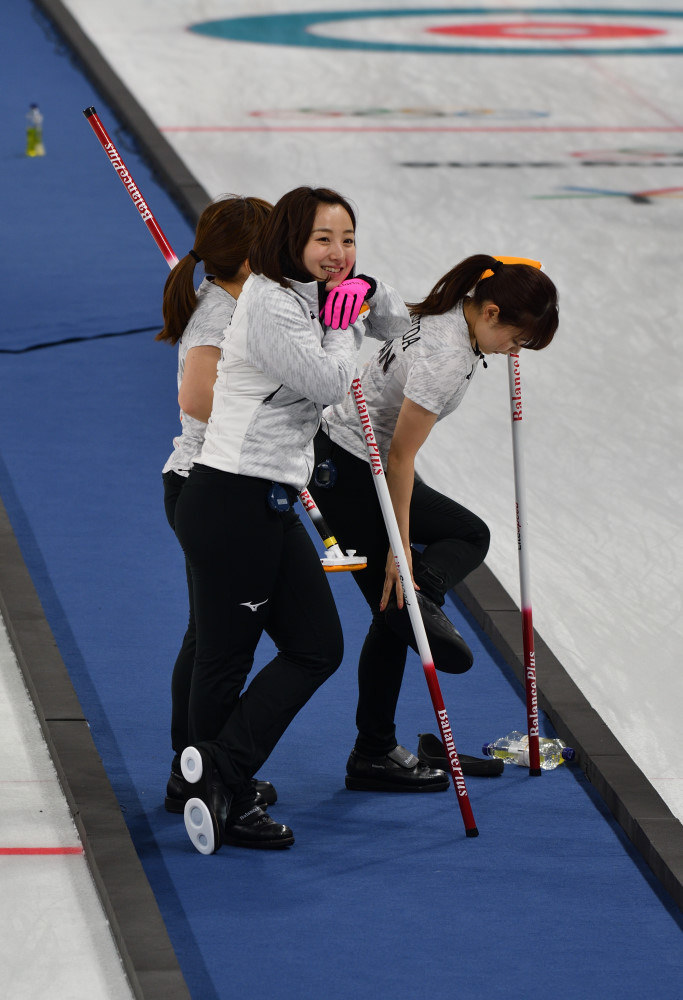 Japan Ladies Curling Team at PyeongChang 2018 Winter Olympic Games